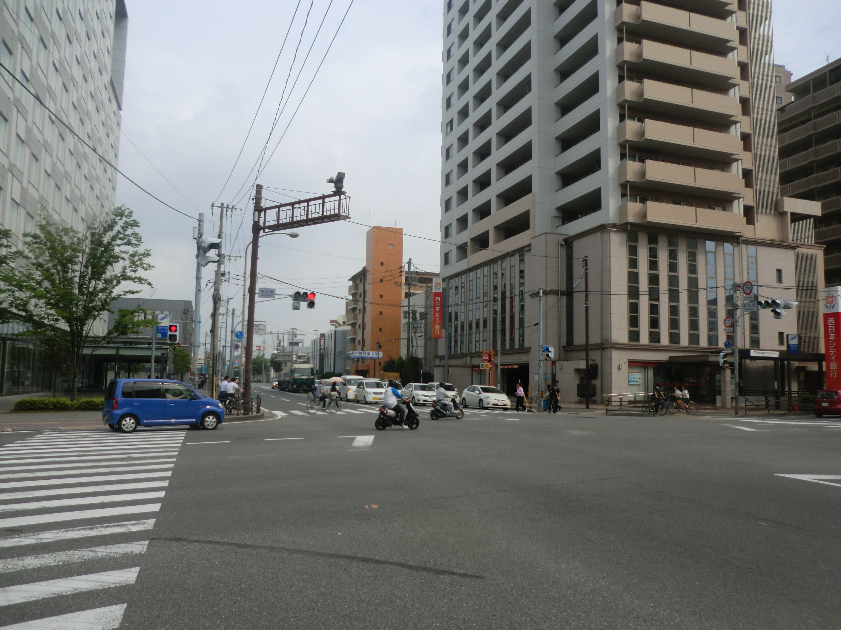 Oita,Fukuoka Prefectural Road No 112 running at Higashi-hie area in Fukuoka,Japan.